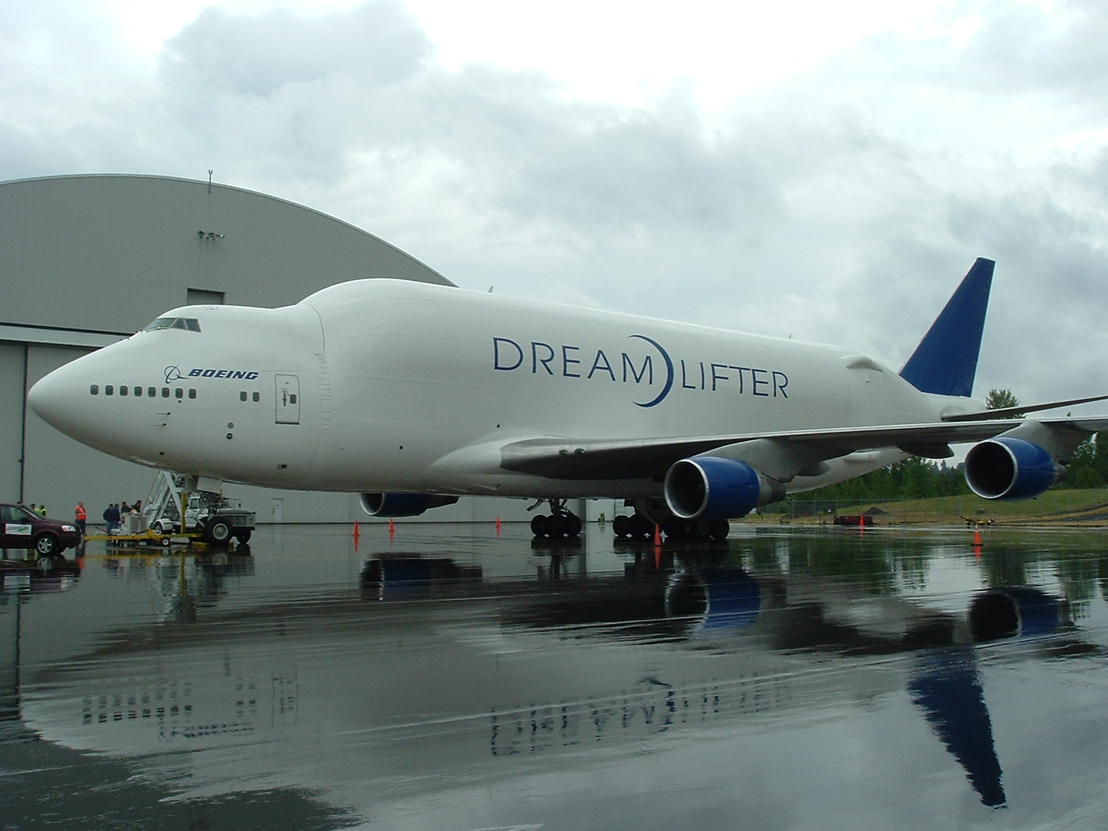 Here at PDX for FAA certification.